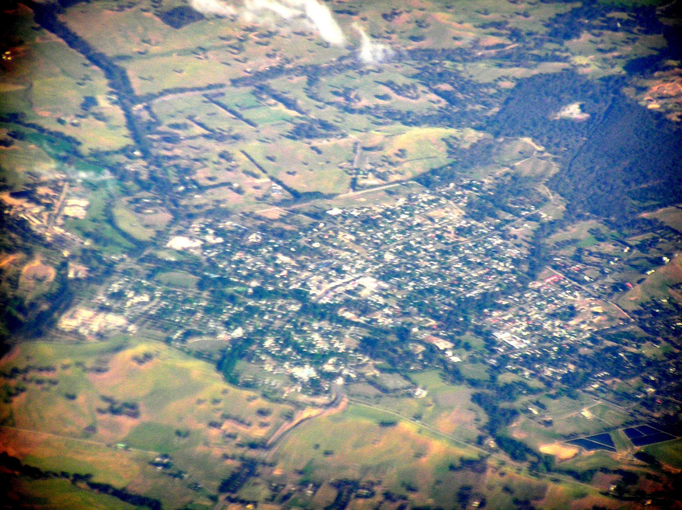 aerial photo of Alexandra Victoria from north west